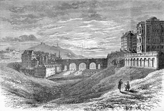 View of the North Bridge, Edinburgh, and the Nor' Loch, in 1809, looking north-east